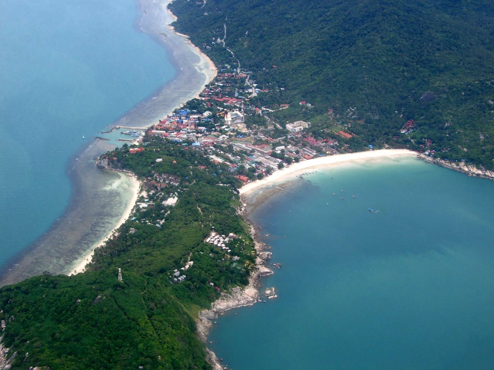 Part of the Haad Rin (หาดริ้น) peninsular from above. Ko Pha Ngan, Thailand. The Full Moon Party occurs on the right most beach.